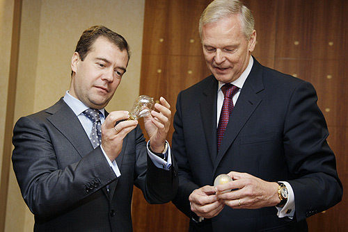 AMSTERDAM. Following a meeting with Dutch business leaders. With General Director of Royal Philips Electronics NV Gerard Kleisterlee.